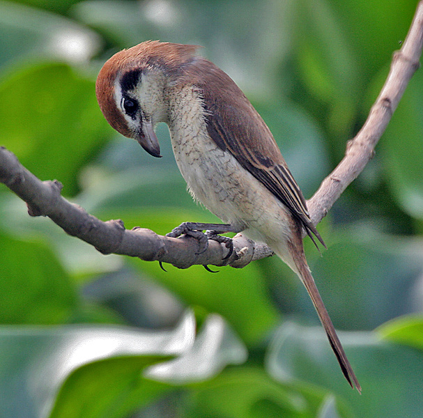 Brown Shrike ((Lanius cristatus)) in Kolkata, West Bengal, India.